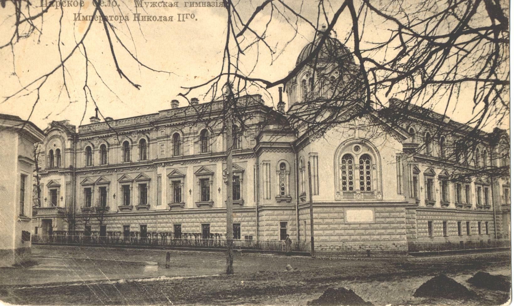 Tsarskoye Selo (Russia)